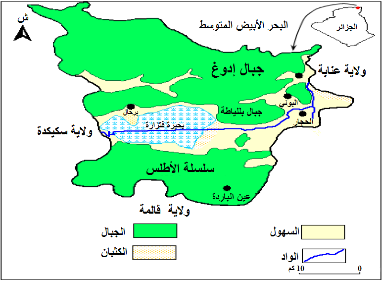 Lake of fetzara